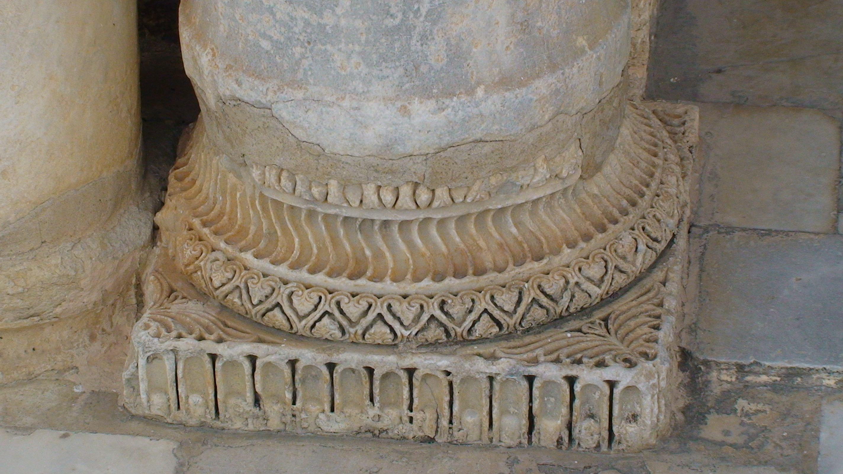 Kairouan (Tunisia) - Great Mosque of Kairouan, Roman column base of one of the porticos of the courtyard.